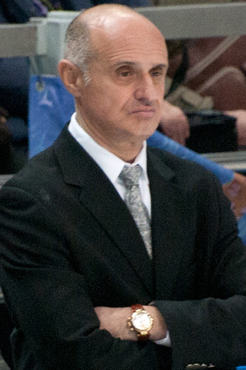 2011 Cup of Russia, short program.